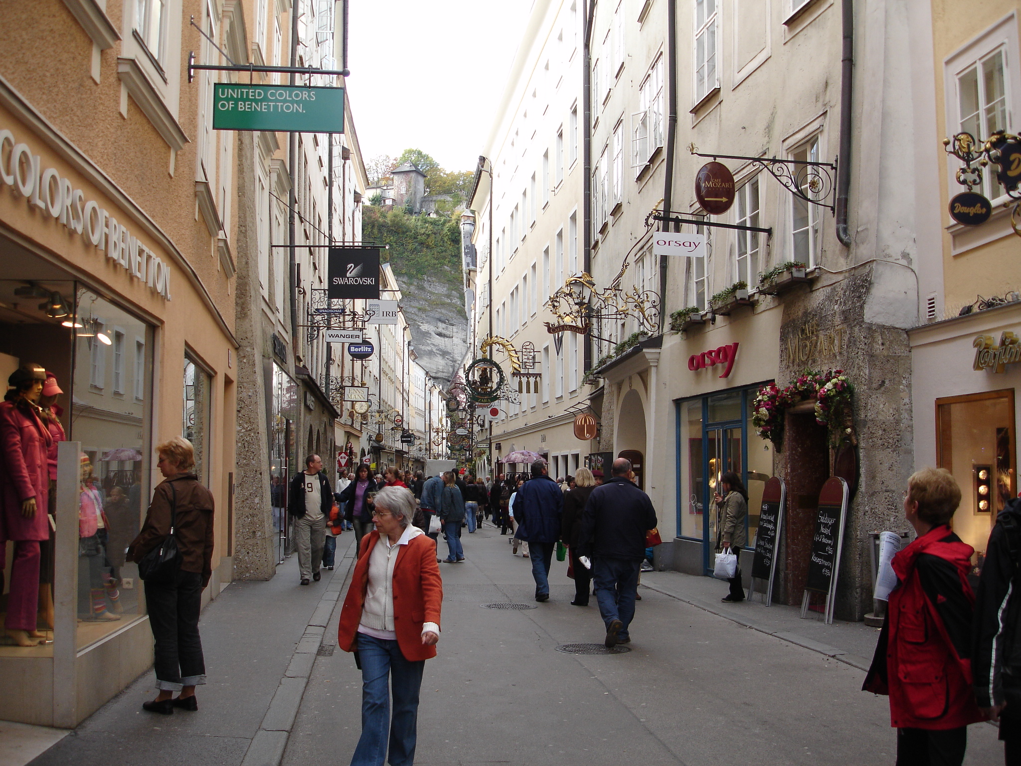 View of shoppers on Getreidegasse, which is one of the oldest streets in Salzburg. Most of the buildings feature wrought-iron guild signs hanging above the shops.